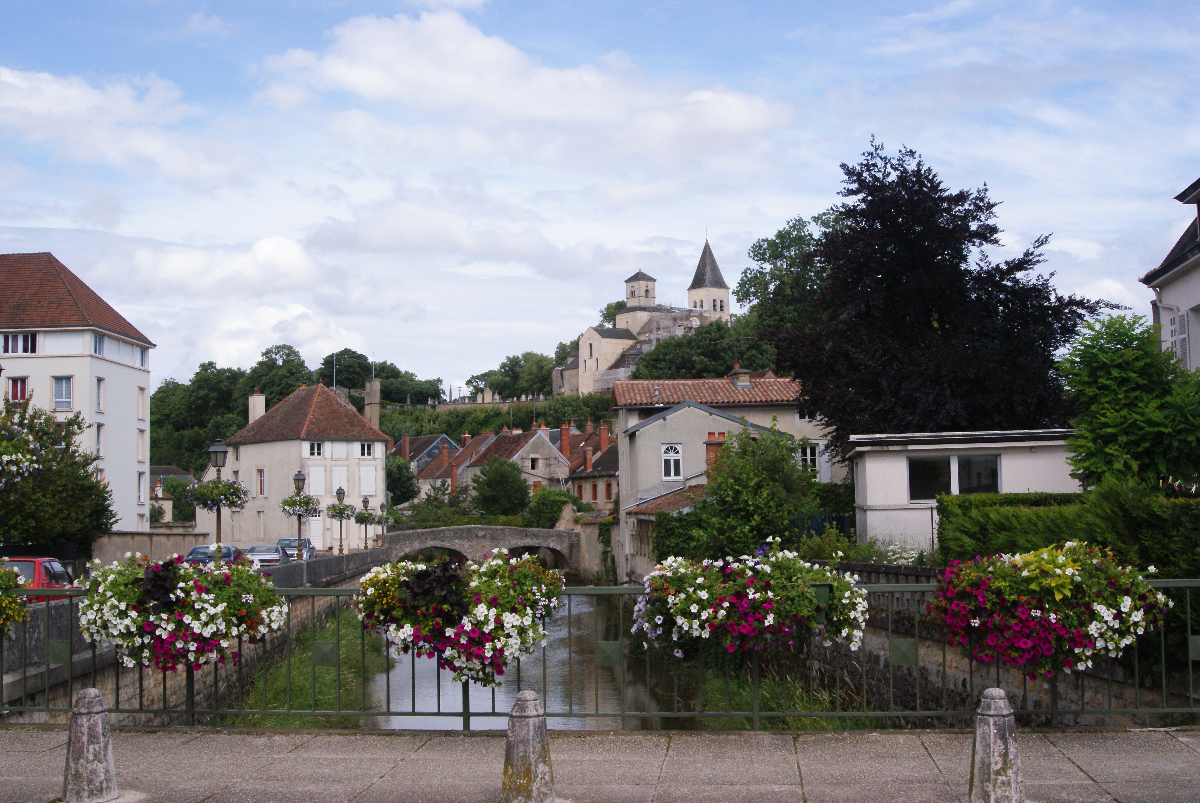 Church of St Vorles in background